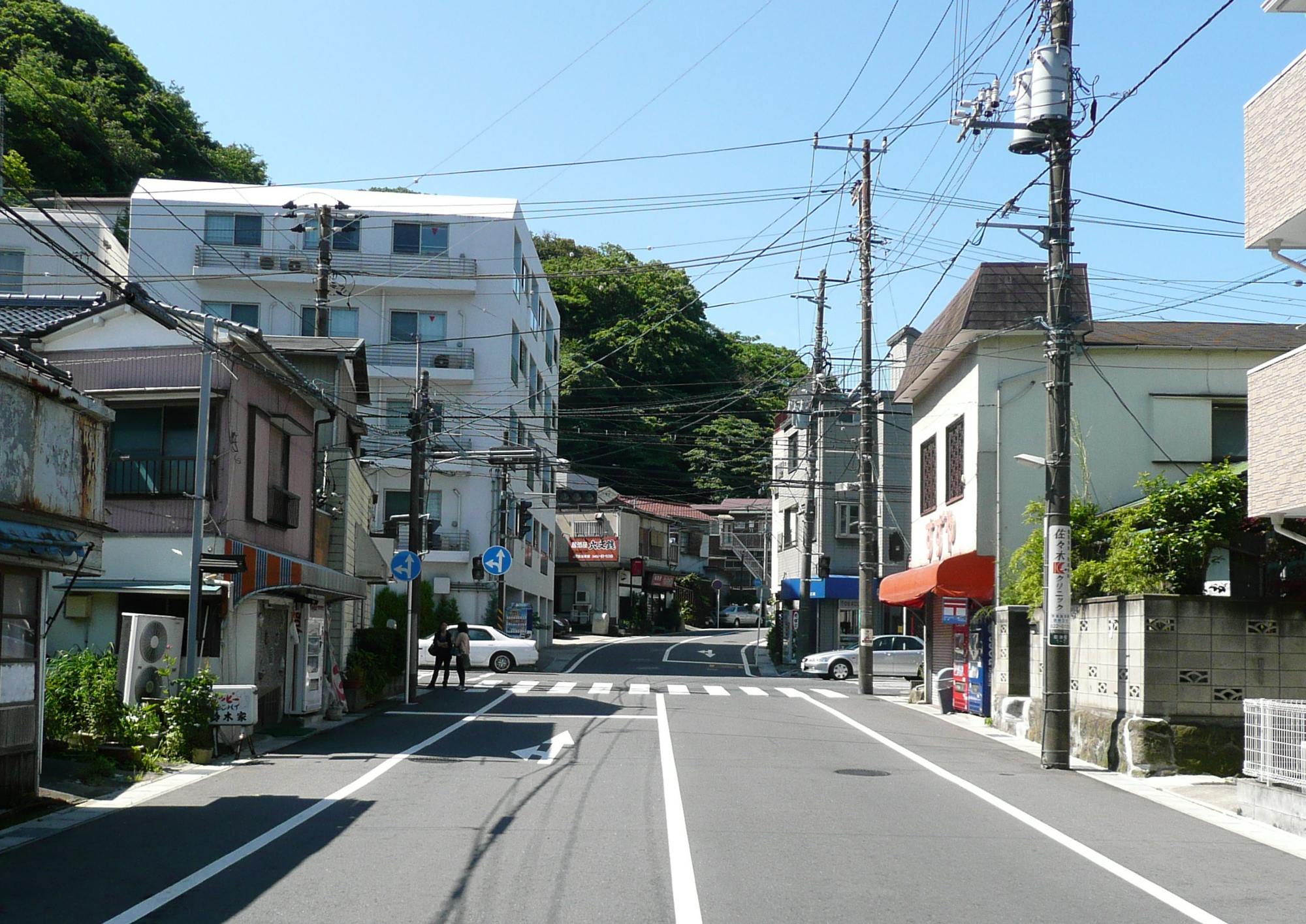 Kanagawa Prefectural road 206